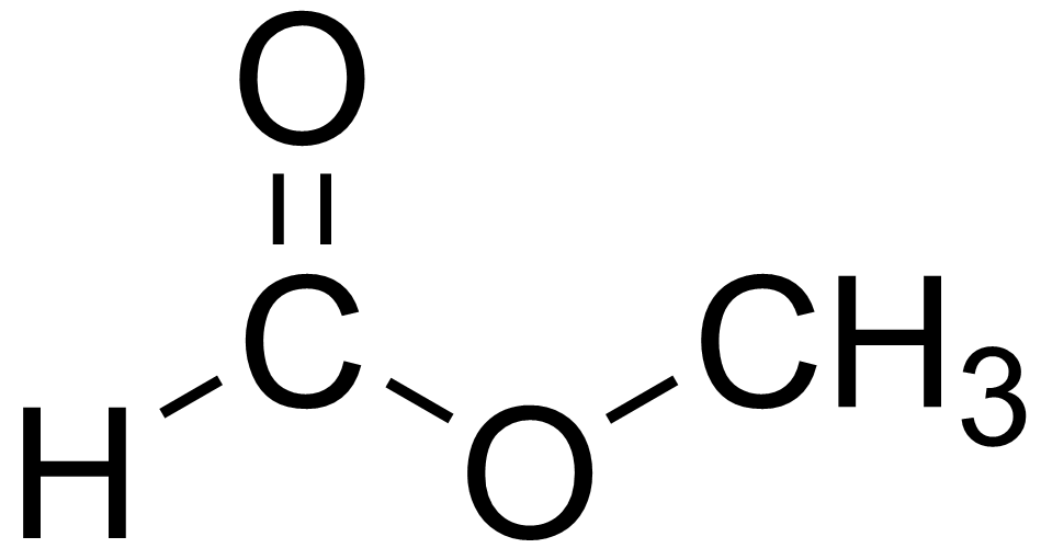 Chemical structure of methyl formate